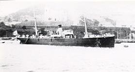 SS "Yakut", IRN, in Vladivostok